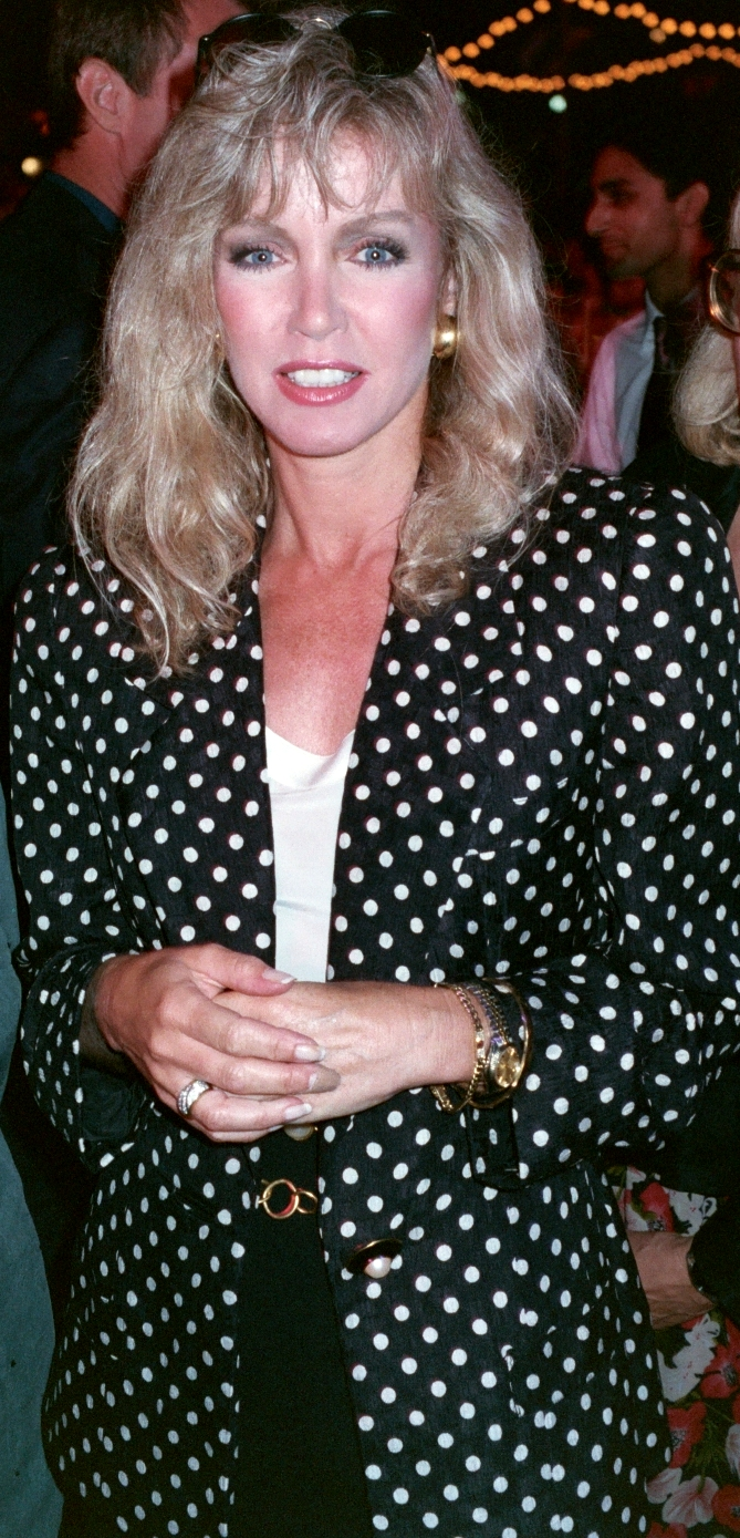 Donna Mills at the AIR AMERICA movie premiere 1990